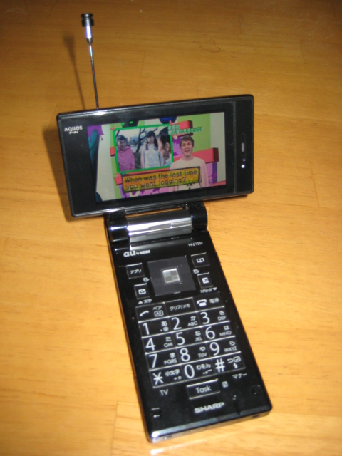 Here is the picture of Japanese cellphone “W61SH” taken by myself.